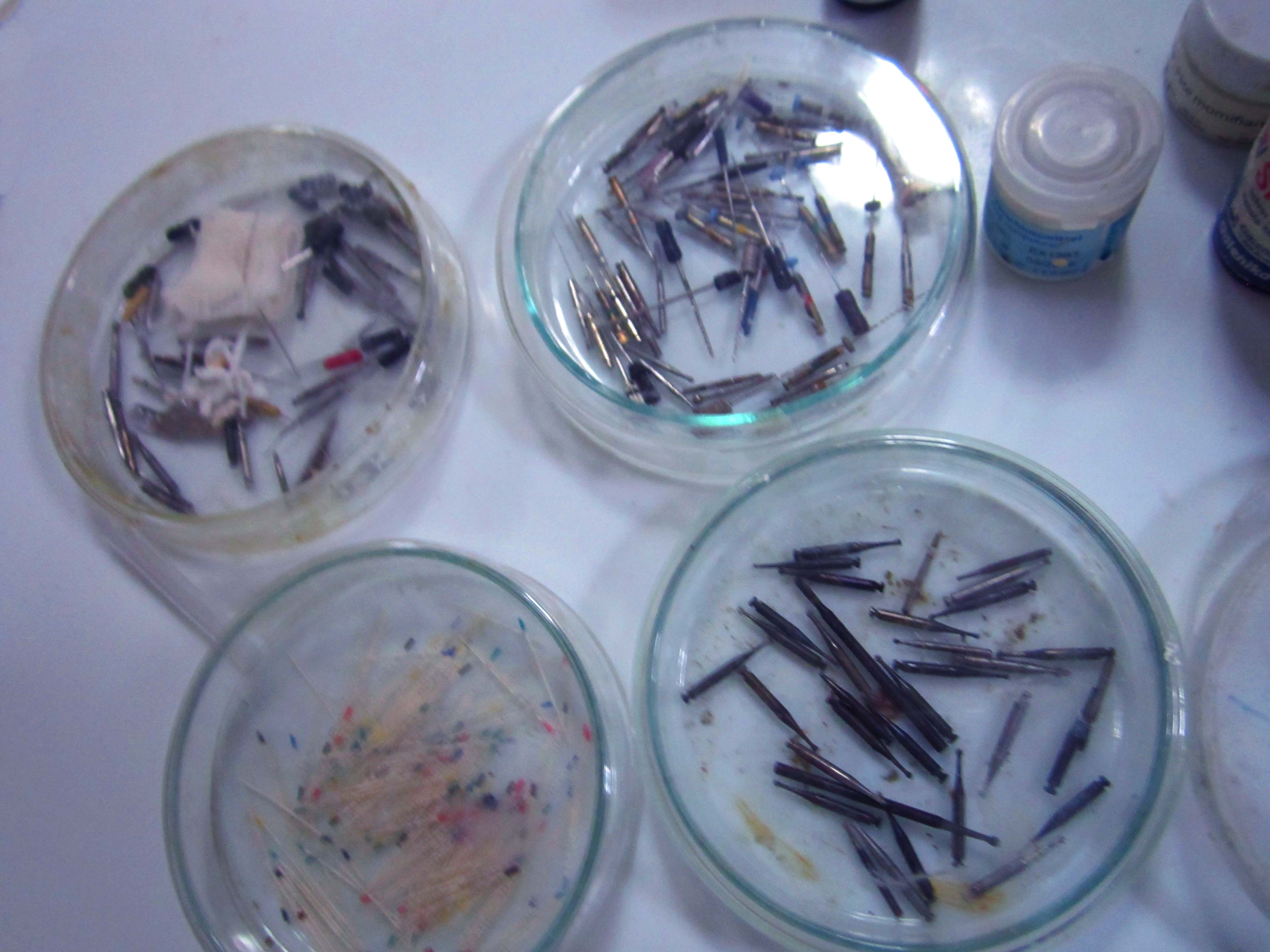 Dental rotary instruments -boreri drills which are not sterilized cleaned in assets with a wide range of action and a short duration of action (5-30 minutes depending on the concentration)